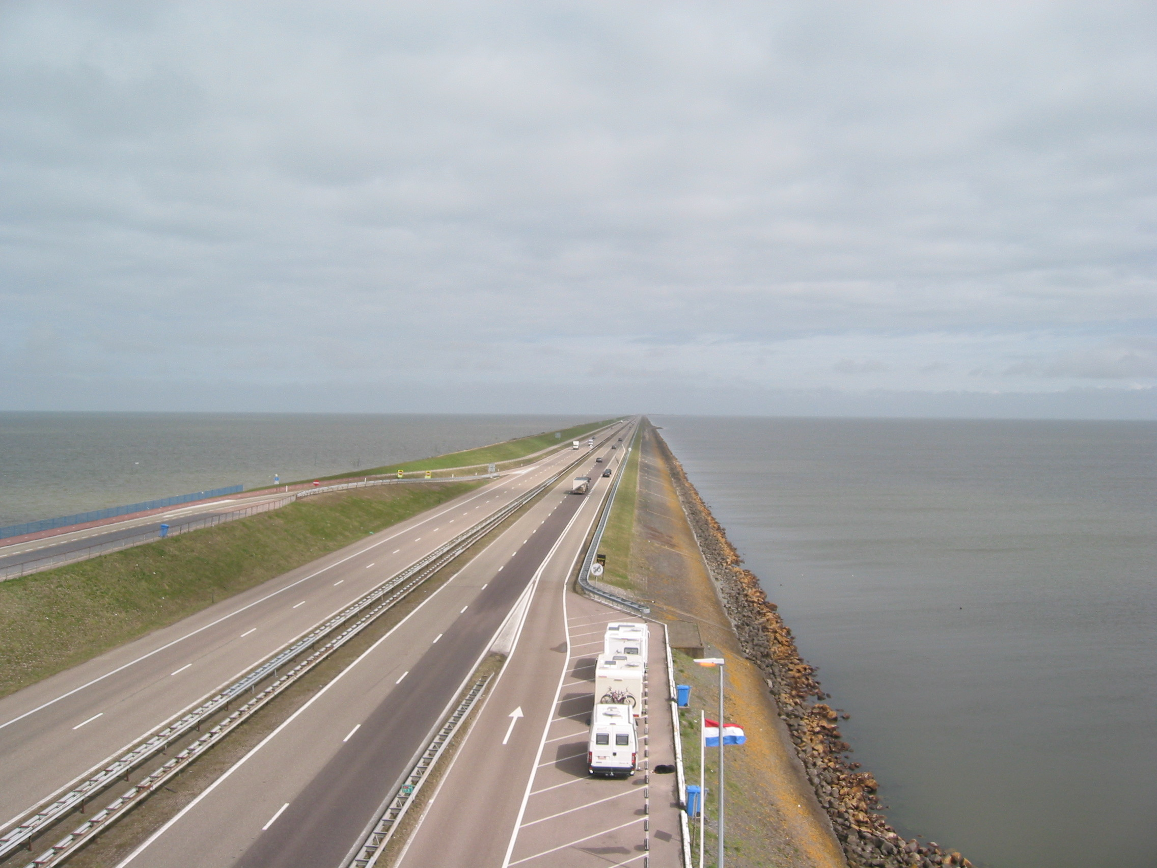 View of the Afsluitdijk with the Wadden Sea on the left and the IJsselmeer on the right.